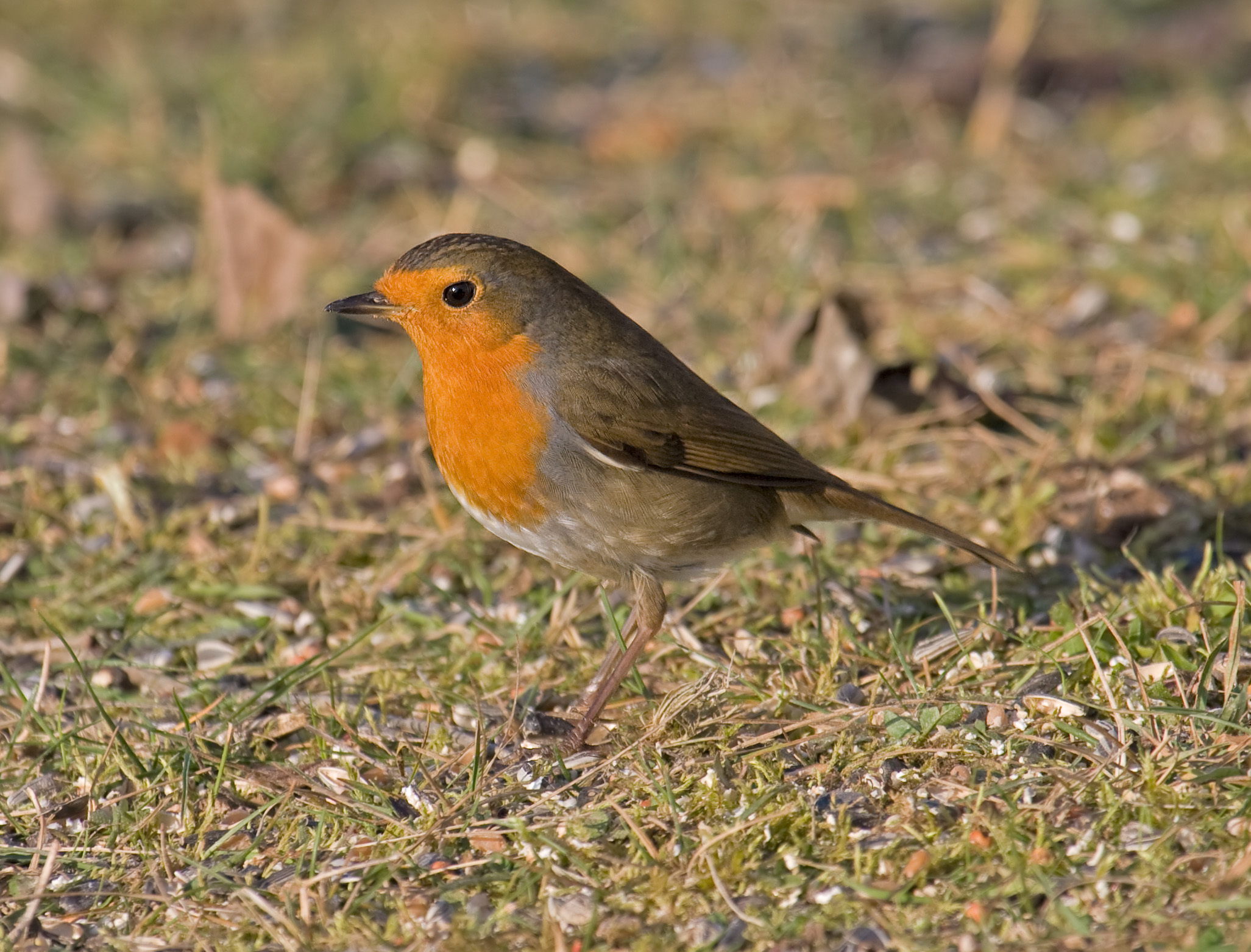 European Robin